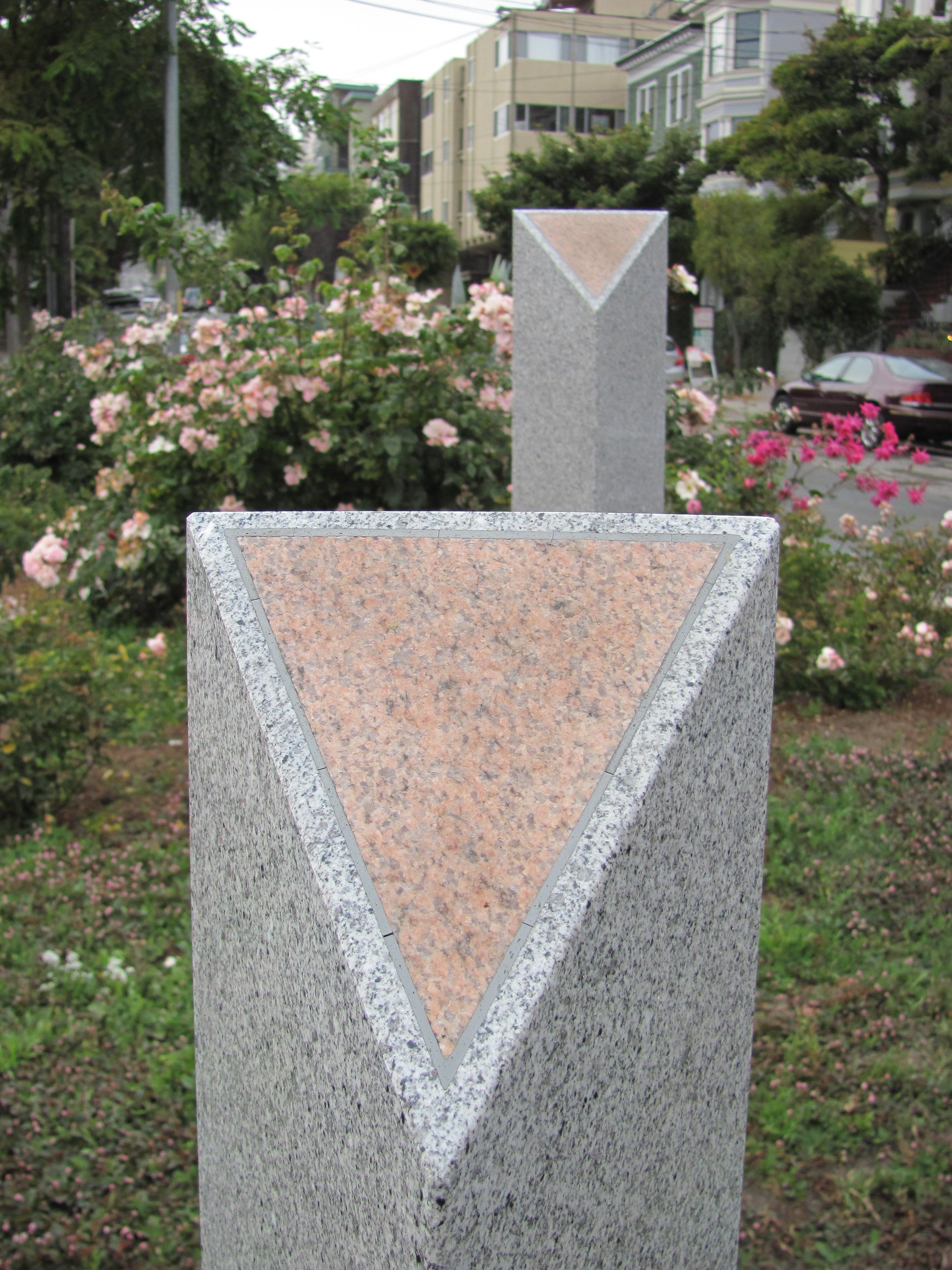 Pink Triangle Park and Memorial, San Francisco